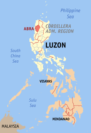 Map of the Philippines showing the location of Abra